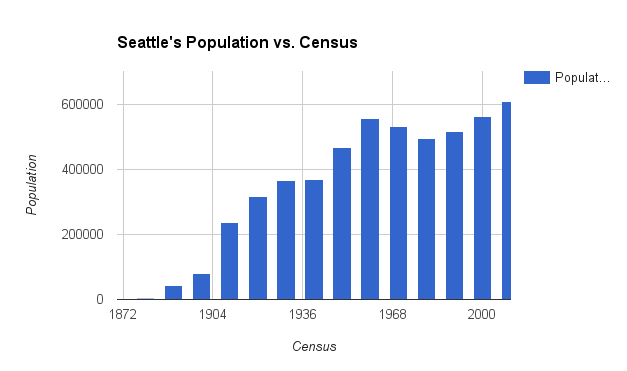 Bar graph demonstration of Seattle's population growth since its founding.